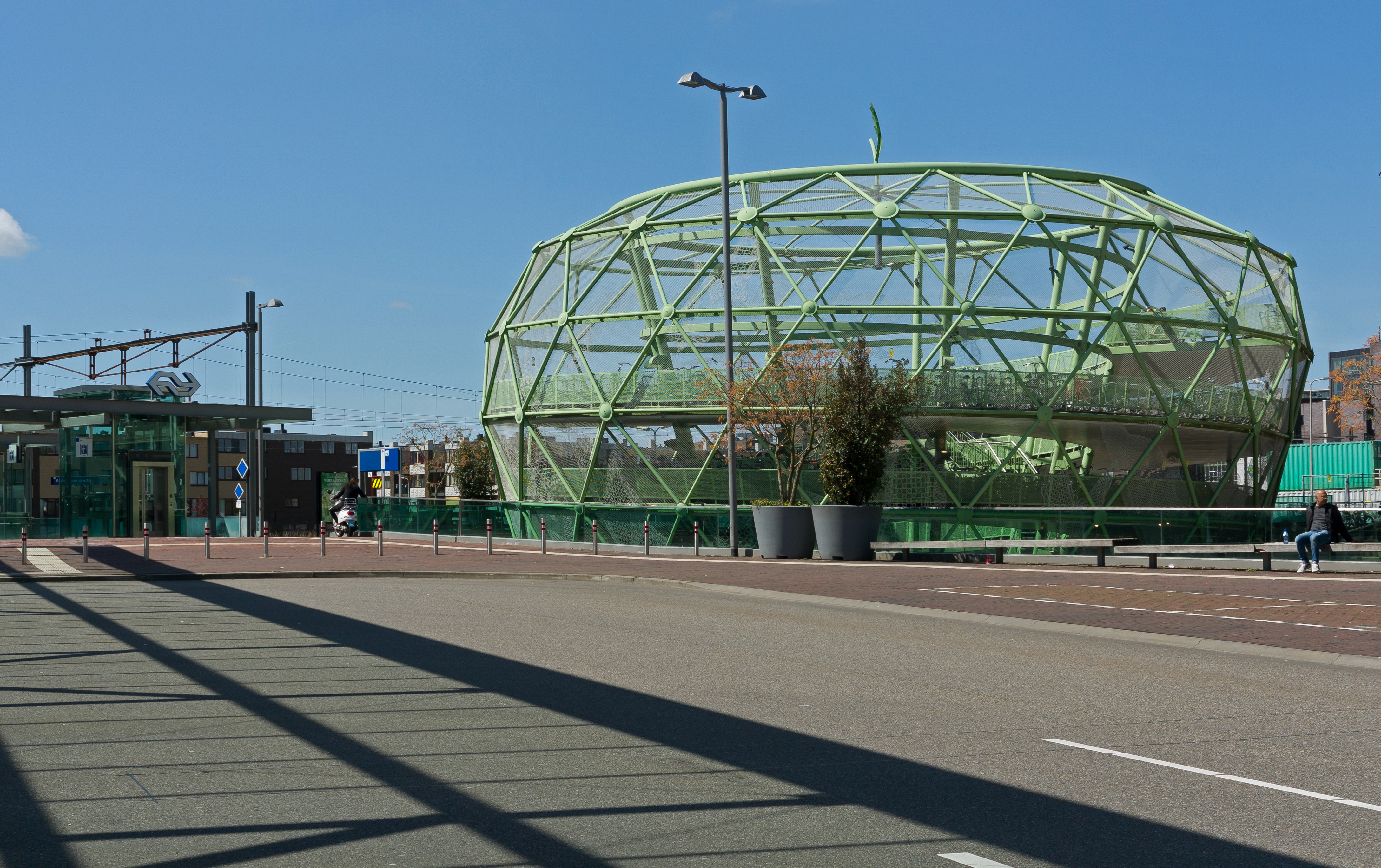 Alpen aan den Rijn, bicycle parking place at the railway station